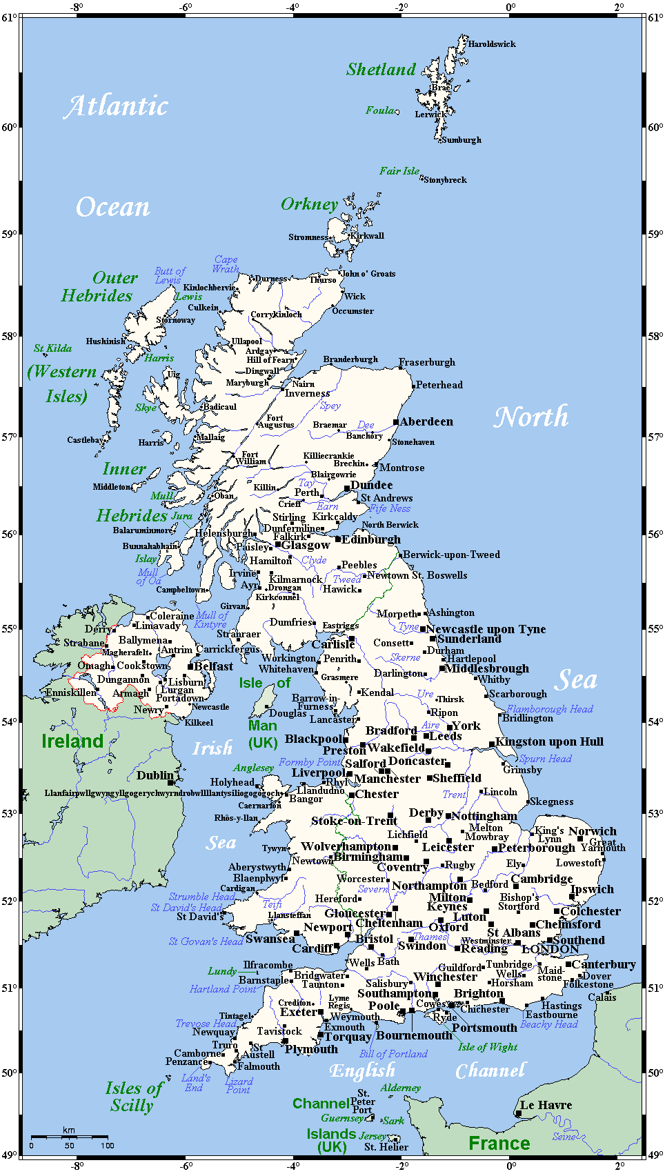 A map showing the United Kingdom's cities (indeed, all municipalities that are officially cities), main towns and selected smaller places.